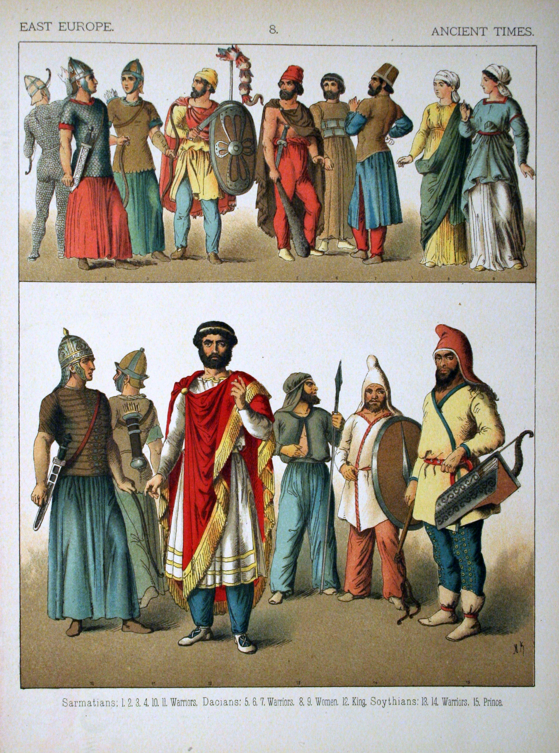 Sarmatians, Dacians, Scythians; ancient times - 008